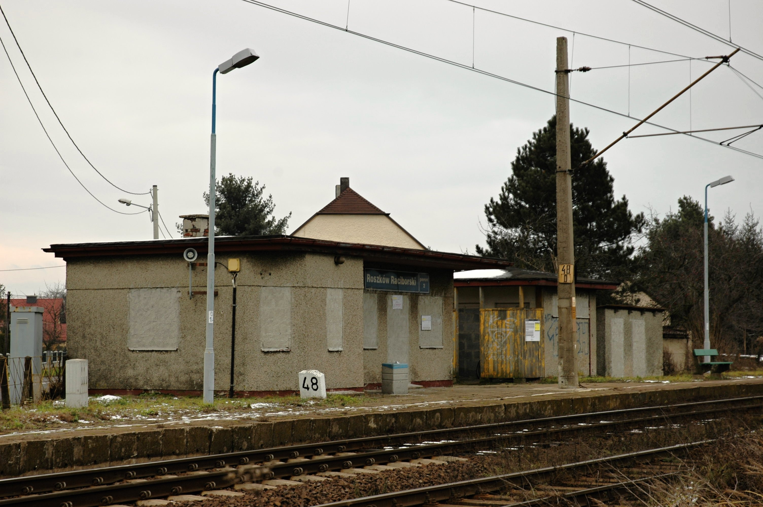 Roszków Raciborski railway stop, Poland